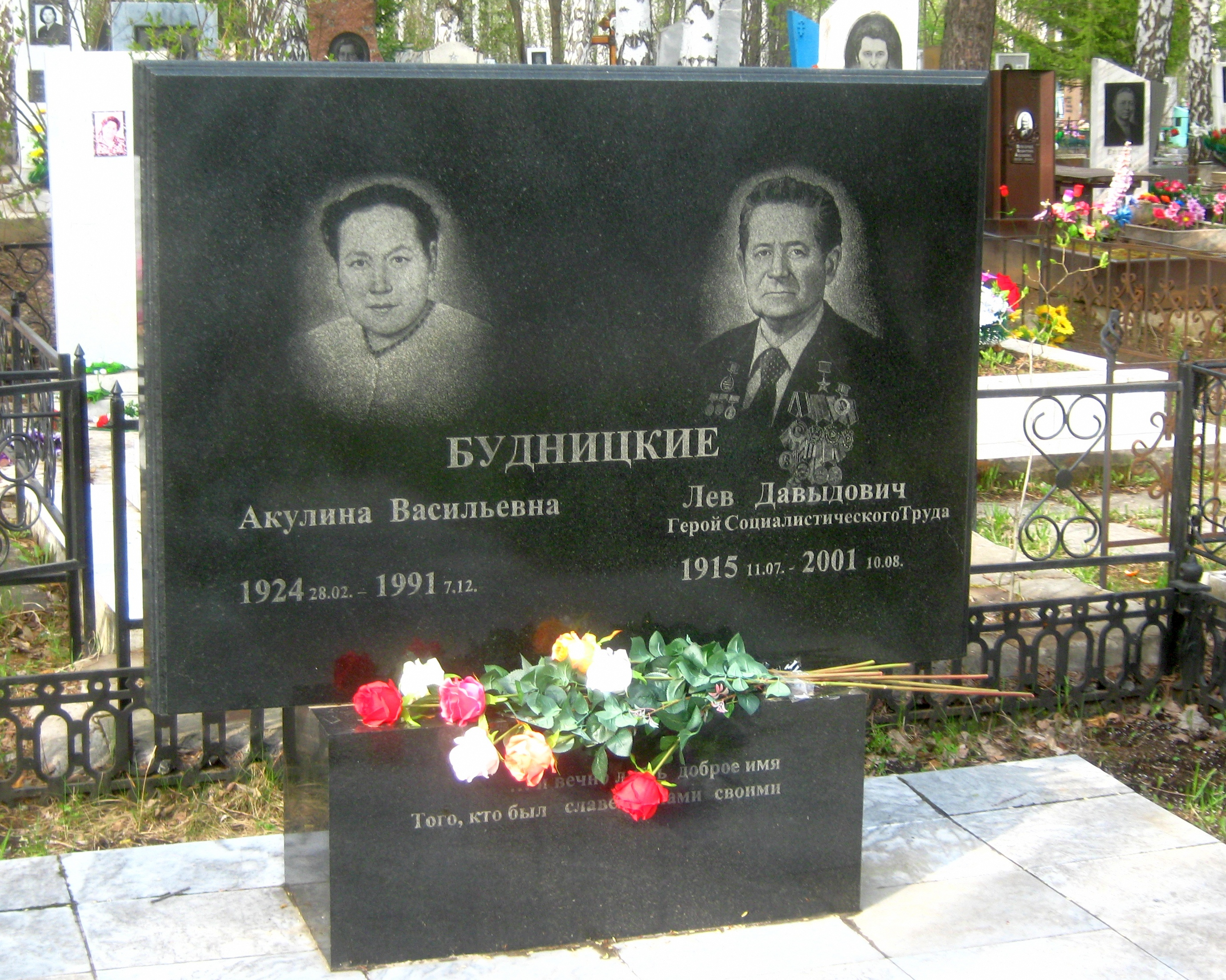 Л. Д. Будницкий на Бактине